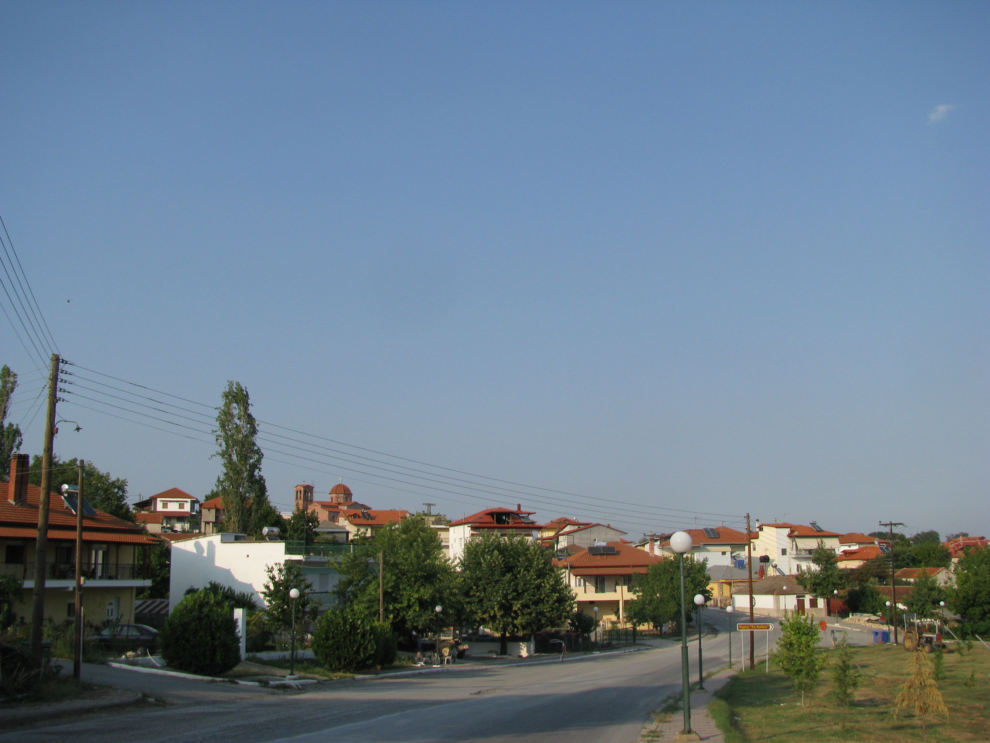 Village of Leptokaria/Litovoi, Aegean Macedonia, Greece